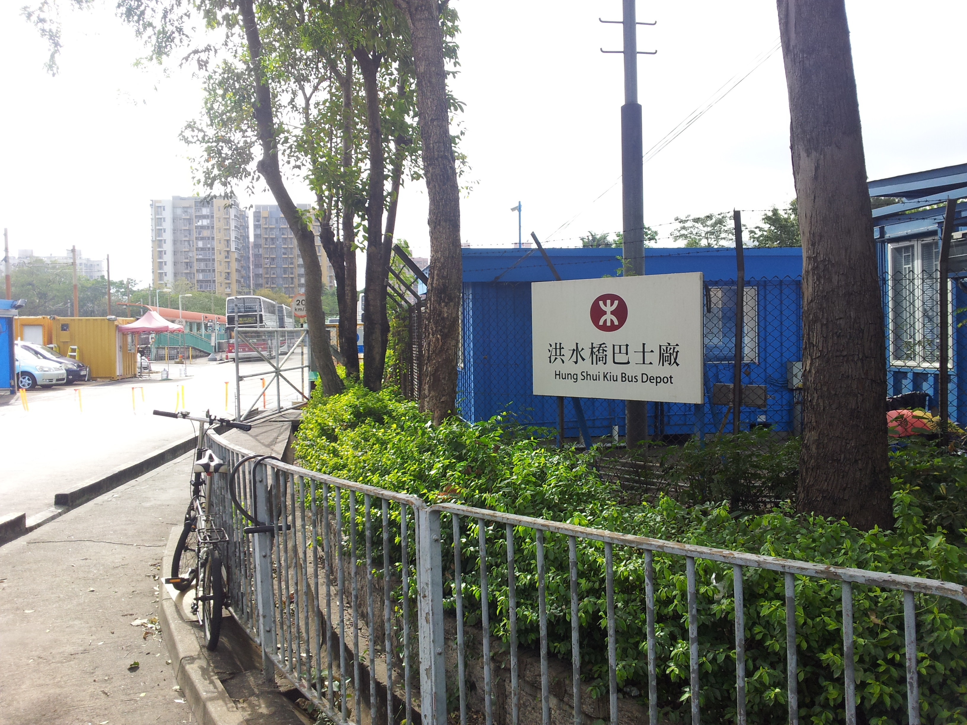 hung shui kiu bus depot